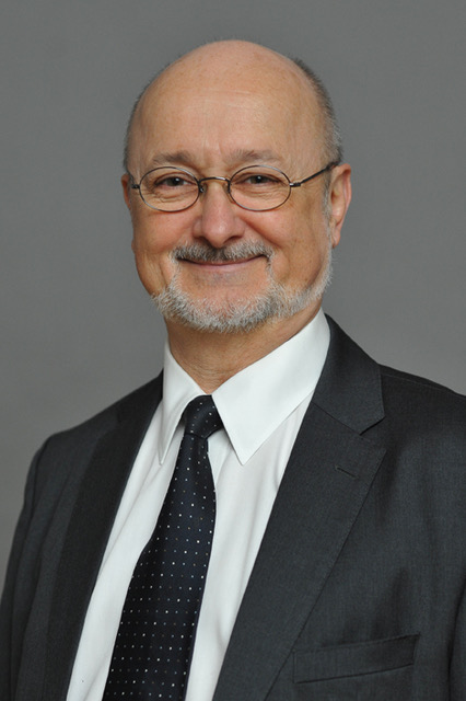 Portrait of Prof. Dr. Alexander waibel